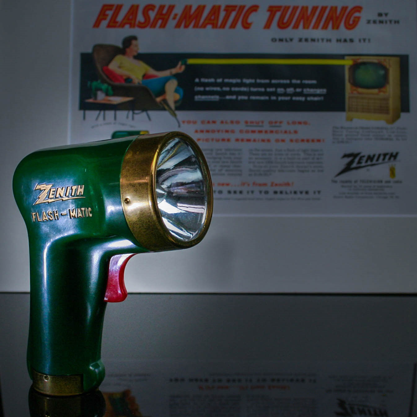 World's 1st wireless TV remote control